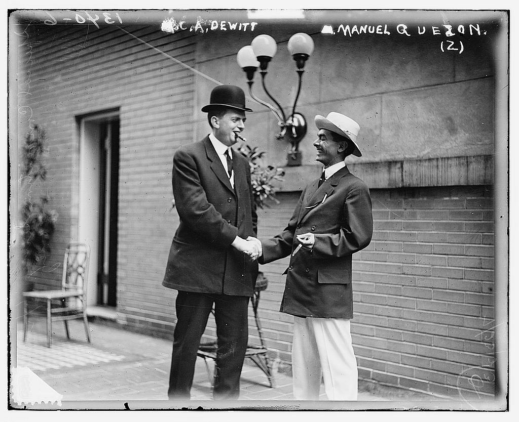 C.A. Dewitt; Manuel Quezon